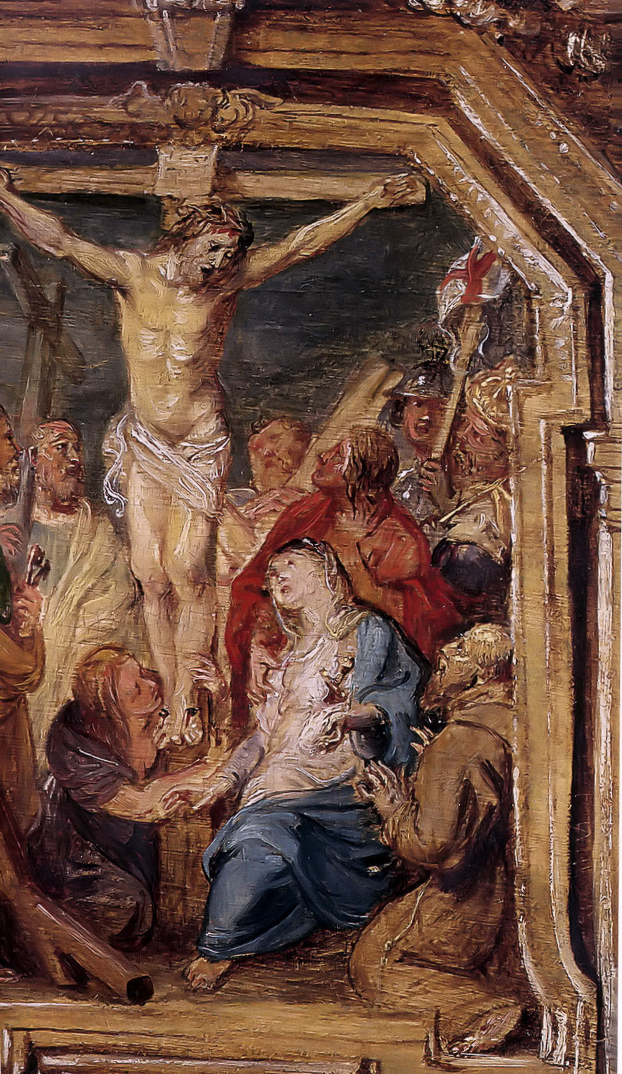 Portion of an oil sketch of the crucifixion of Christ.